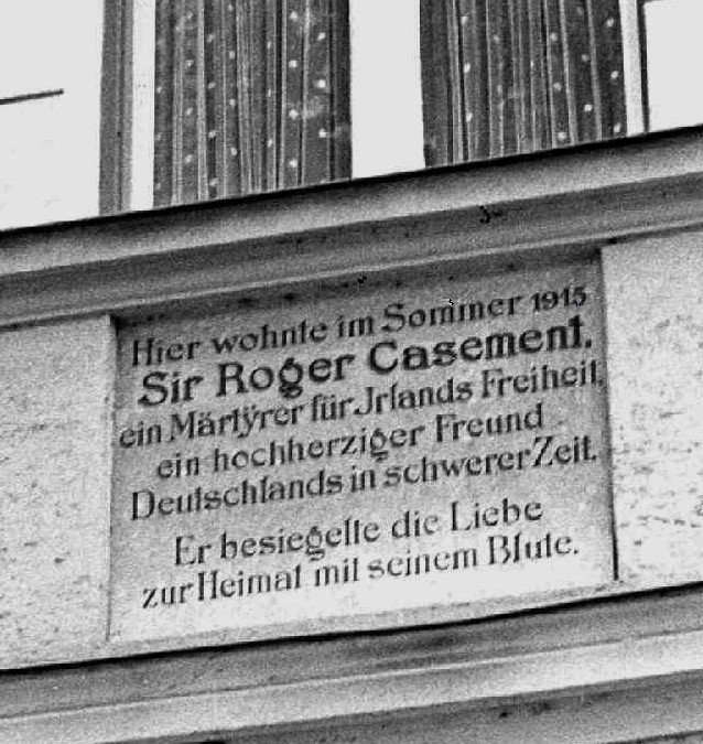 Image of a Roger Casement plaque on a guest-house in Riederau, a small village on Lake Ammersee, Bavaria sw. of Munich, Germany which commemorated his stay there during the Summer of 1915. The text translated reads: Here resided in Summer 1915, Sir Roger Casement, a martyr for Ireland's freedom, a magnanimous friend of Germany in difficult times. He sealed the love of country with his blood.